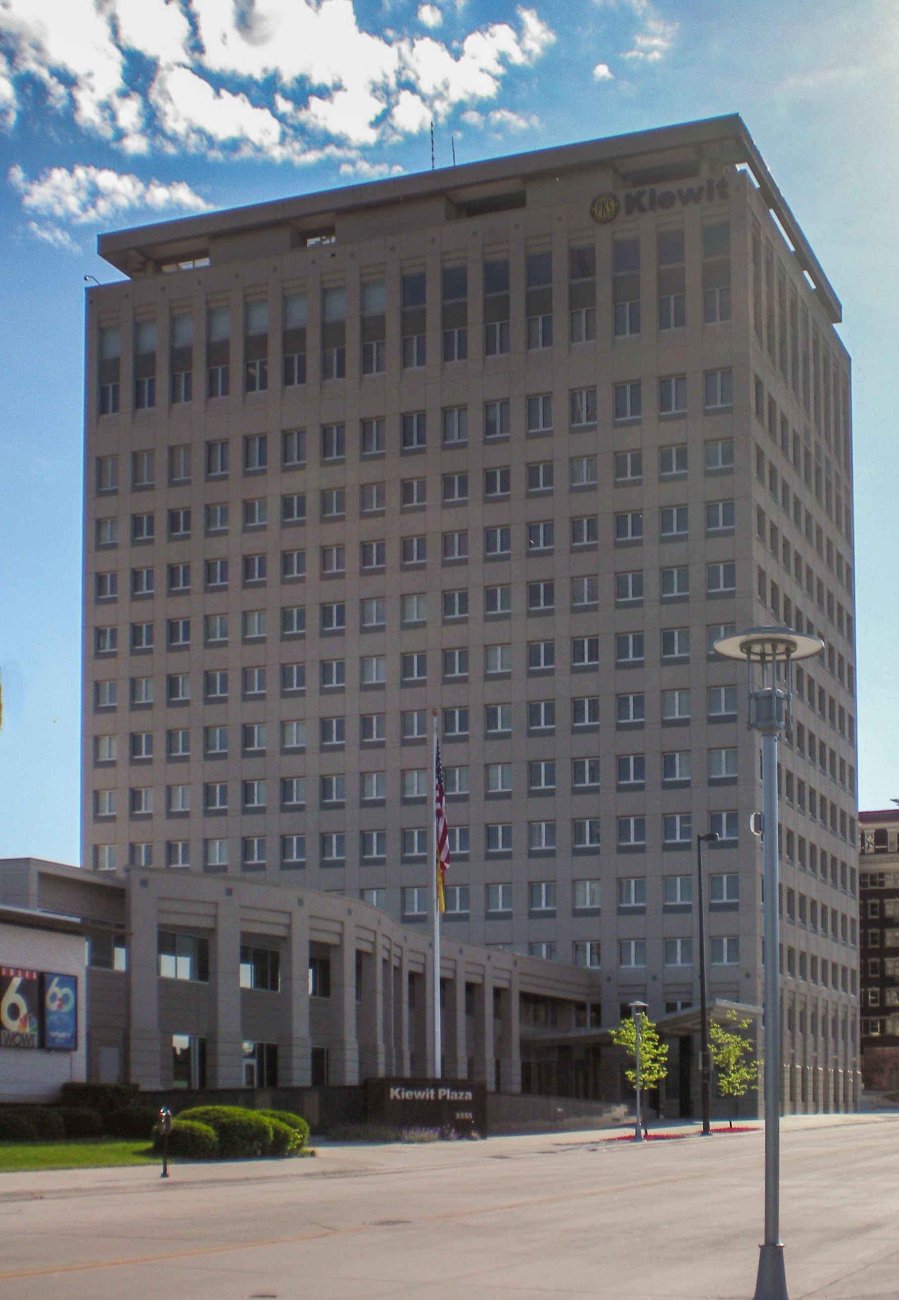 Kiewit Plaza in midtown Omaha, Nebraska, USA.